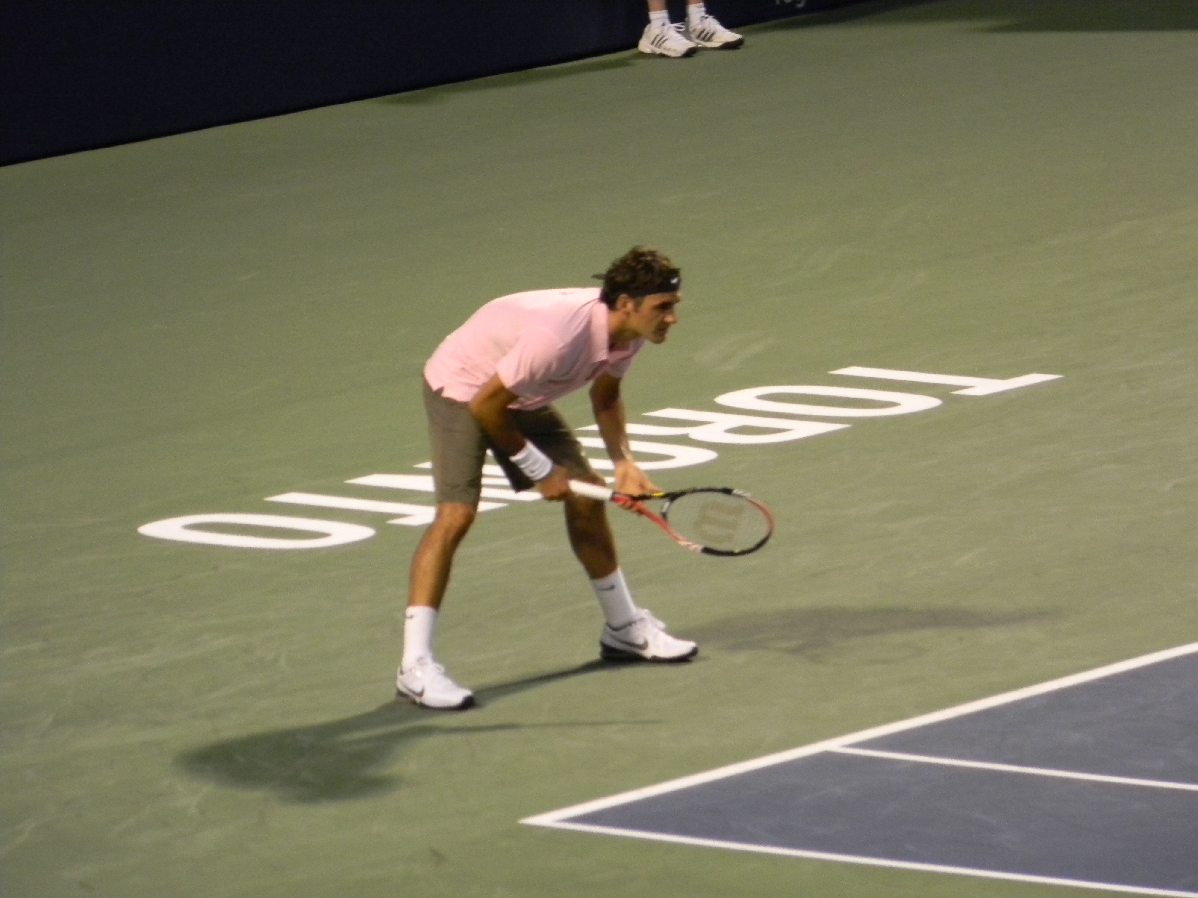 Novak Đoković vs Roger Federer on 2010 Rogers Cup Semifinal game in Toronto, Rexall Centre 1:2 (1:6, 6:3, 5:7)